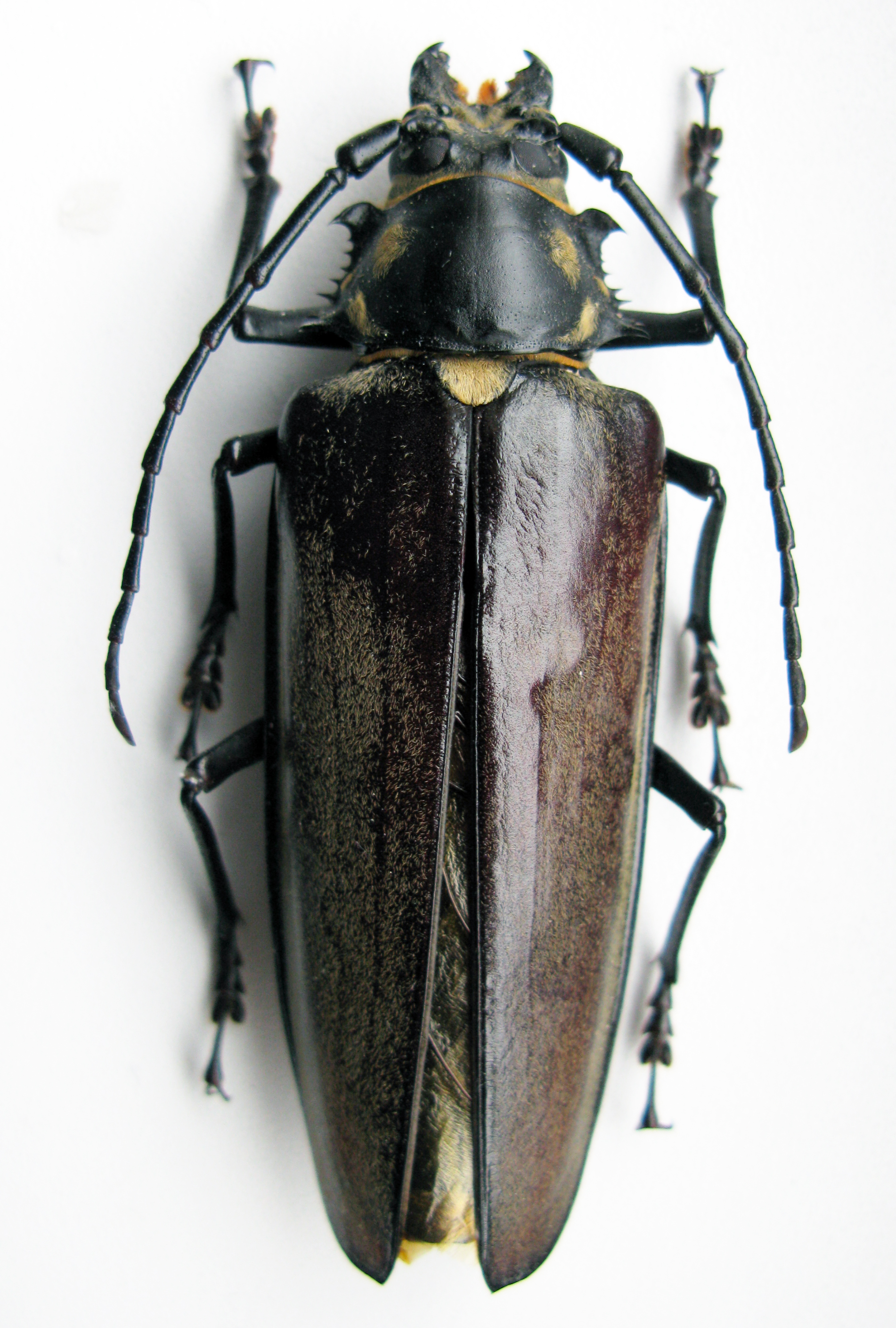 Callipogon relictus Female